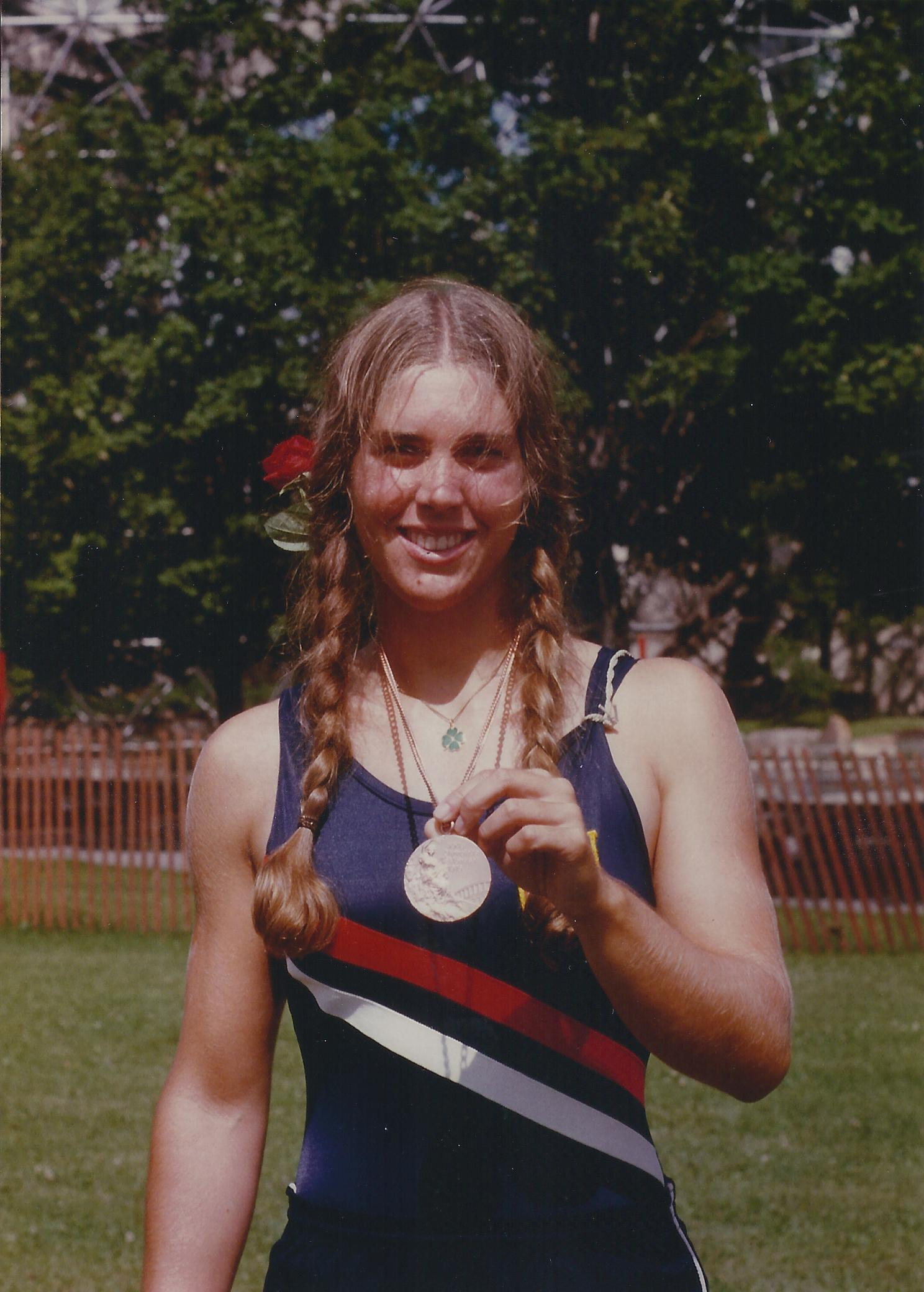 Photo of Carol Brown, taken in Montreal, 1976, following the Olympic race